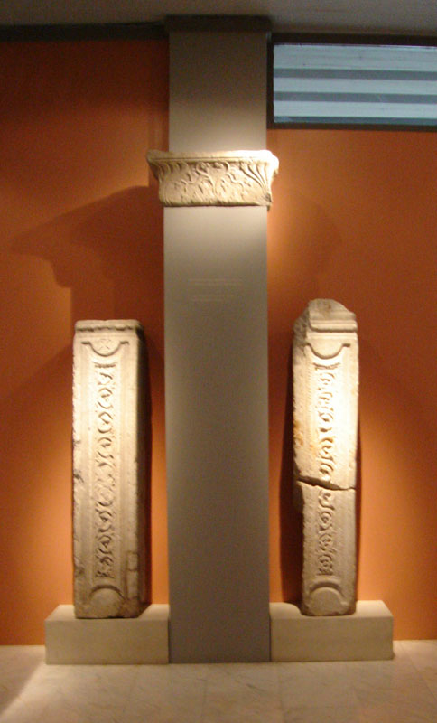 Sculpture sample of early Christian era, image from the Archaeological Museum, Drama, East Macedonia, Greece